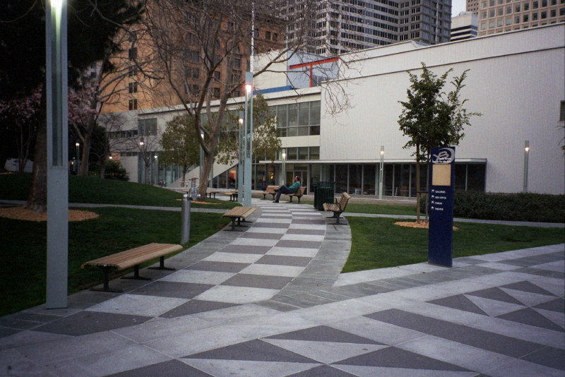 Yerba Buena Center for the Arts, San Francisco, CA Side as seen from Yerba Buena Gardens March 4, 2007, early twilight